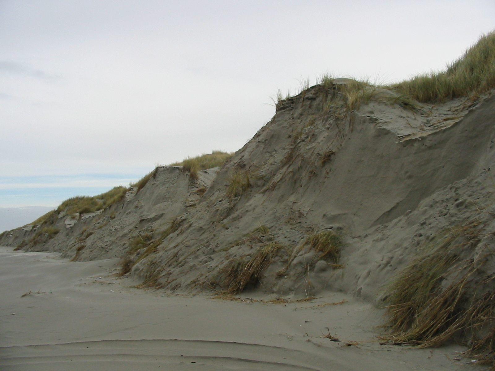 Dunes on Ameland after storm